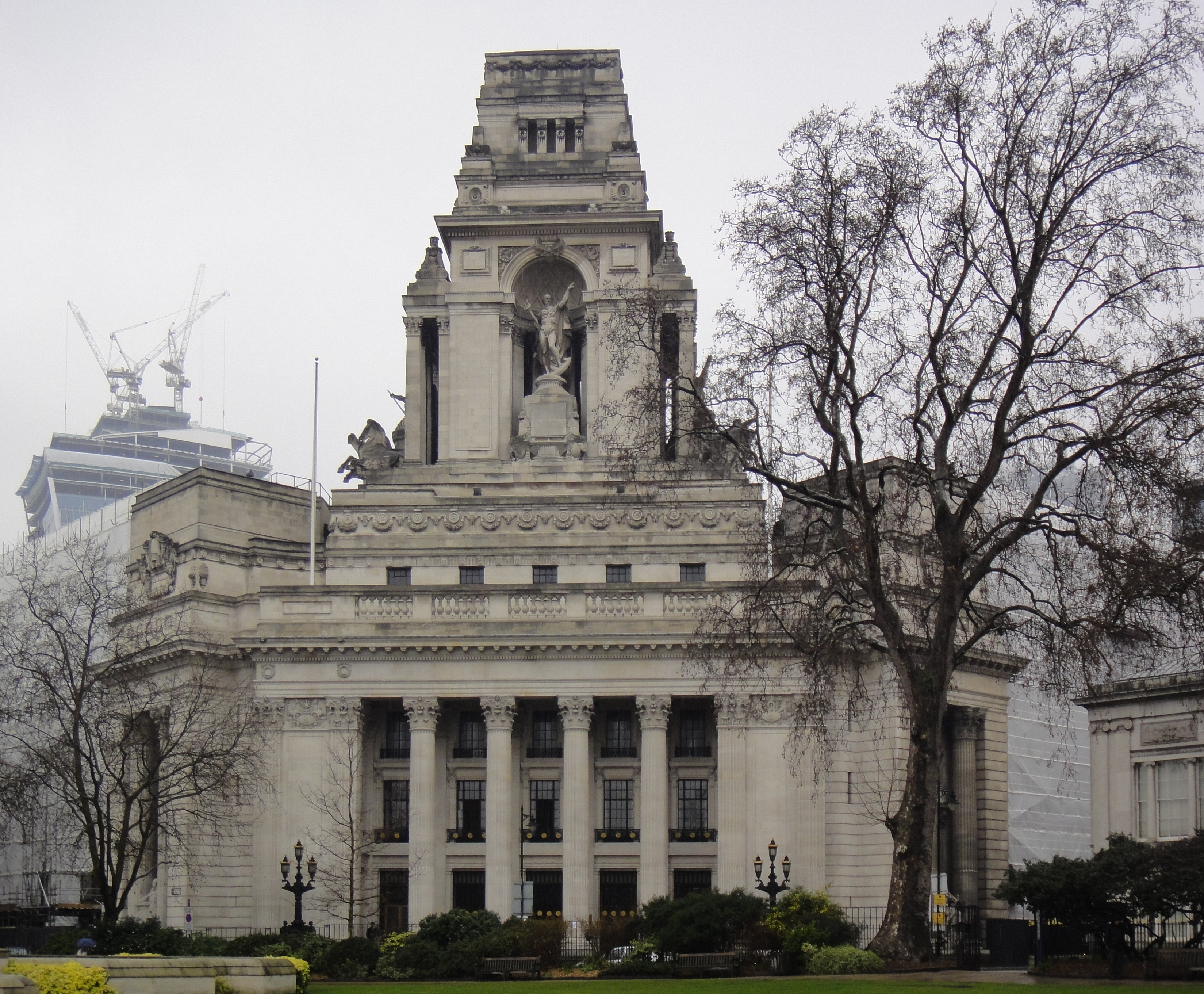 10 Trinity Square, formerly the Port of London Authority, in rainy, rainy London